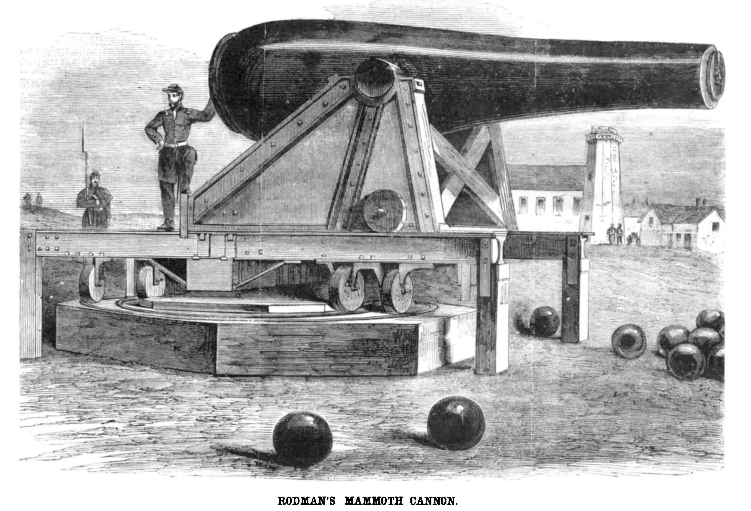 The fifteen-inch gun, at Fort Monroe, was cast at the Fort Pitt Foundry of Messrs. Knapp, Rudd & Co., Pittsburgh.